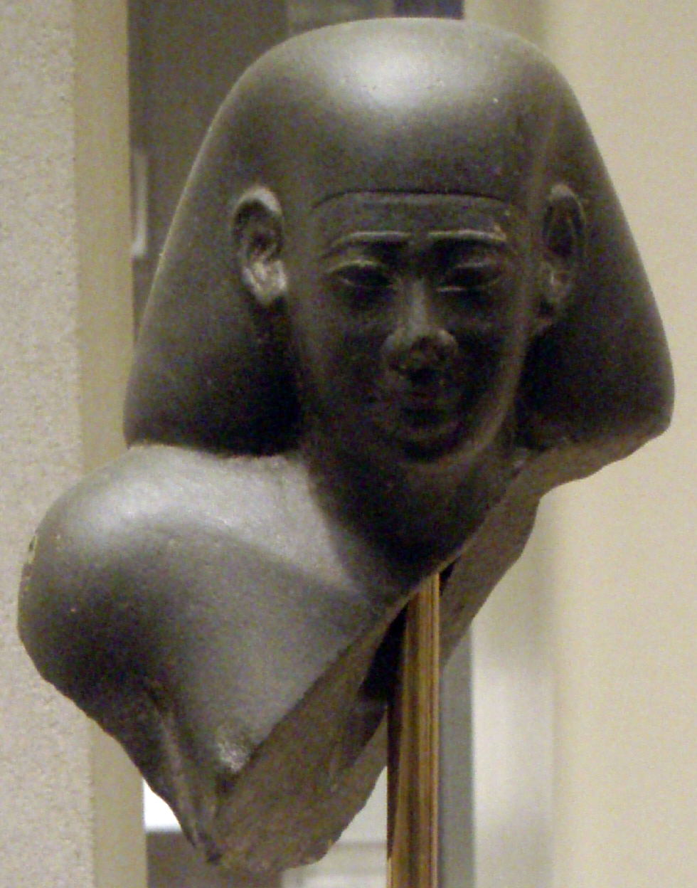 Large bronze statuette head bearing the nomen of the pharaoh Apries of the 26th dynasty. Statue of military commander Amasis [Metropolitan Museum of Art Circa 589-570 B.C.